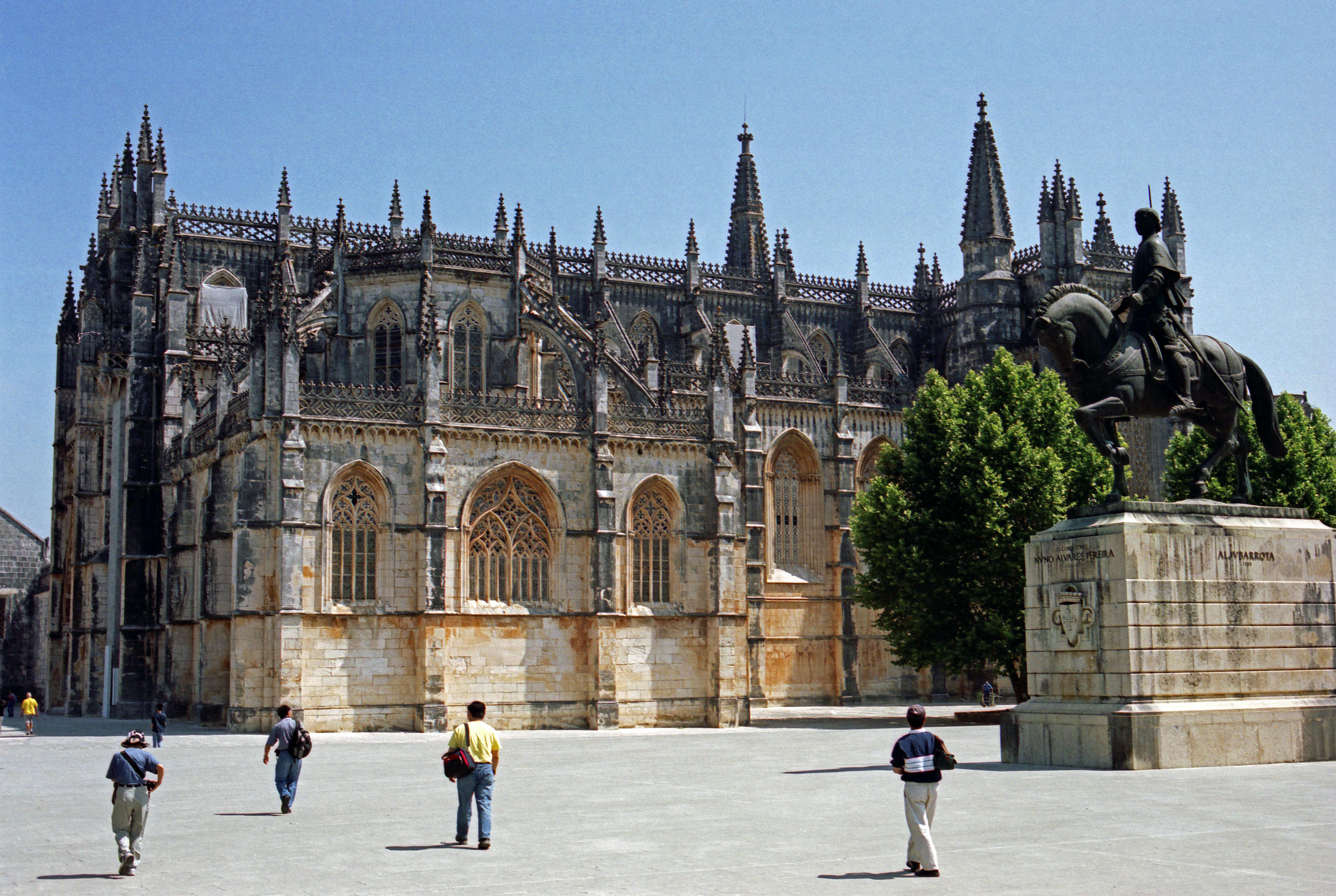 A few kilometers to the north of Alcobaca is the wondrous building constructed in memory of an important battle, that of Aljubarrota in 1385 when Dom Joao I defeated the Castilians and ensuring two hundred years of virtual independence from Spanish Invaders. When King Dom Fernando I died without an heir to the throne it was claimed by both his illegitimate brother Dom Joao I and Juan de Castile of Spain on behalf of his wife. On the 14th of August of that year the out numbered army of Dom Joao I commanded by the outstanding general Nuno Alvares Pereira faced the Spanish forces just south of the Abbey. It is said on the eve of the battle Dom Joao made a vow to construct an unforgettable church in memory of the Virgin Mary should he succeed the next day. Construction of the Abbey started in 1388. Here are the resting places of Joao I, his English wife Philippa of Lancaster and their son Prince Henry the Navigator who helped to explore the then unknown world.